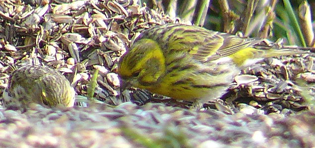 Serinus serinus male (right) and female (left)